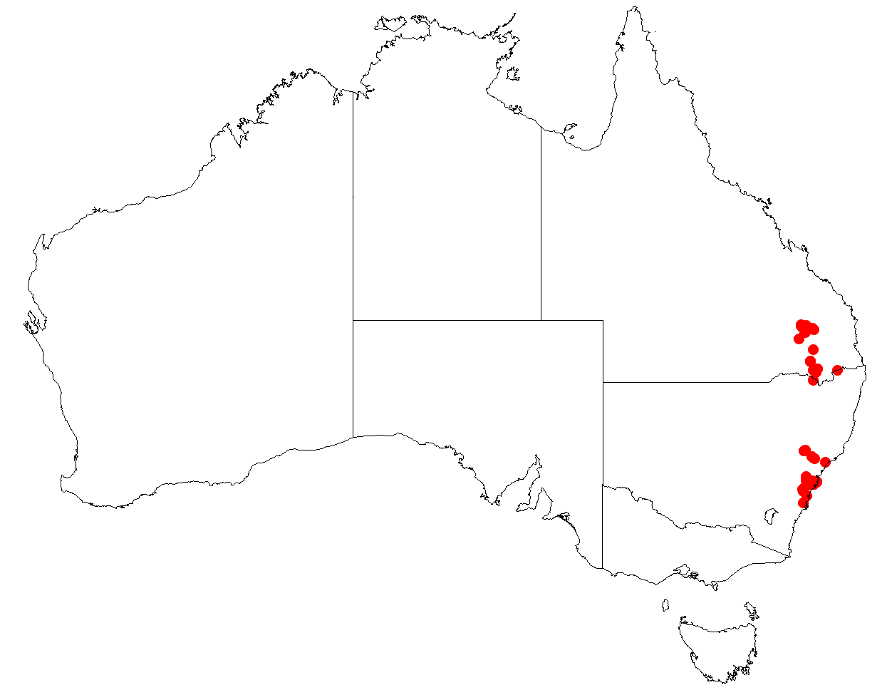 Australian distribution of Amyema gaudichaudii based on download from Australasian Virtual Herbarium May 9, 2018